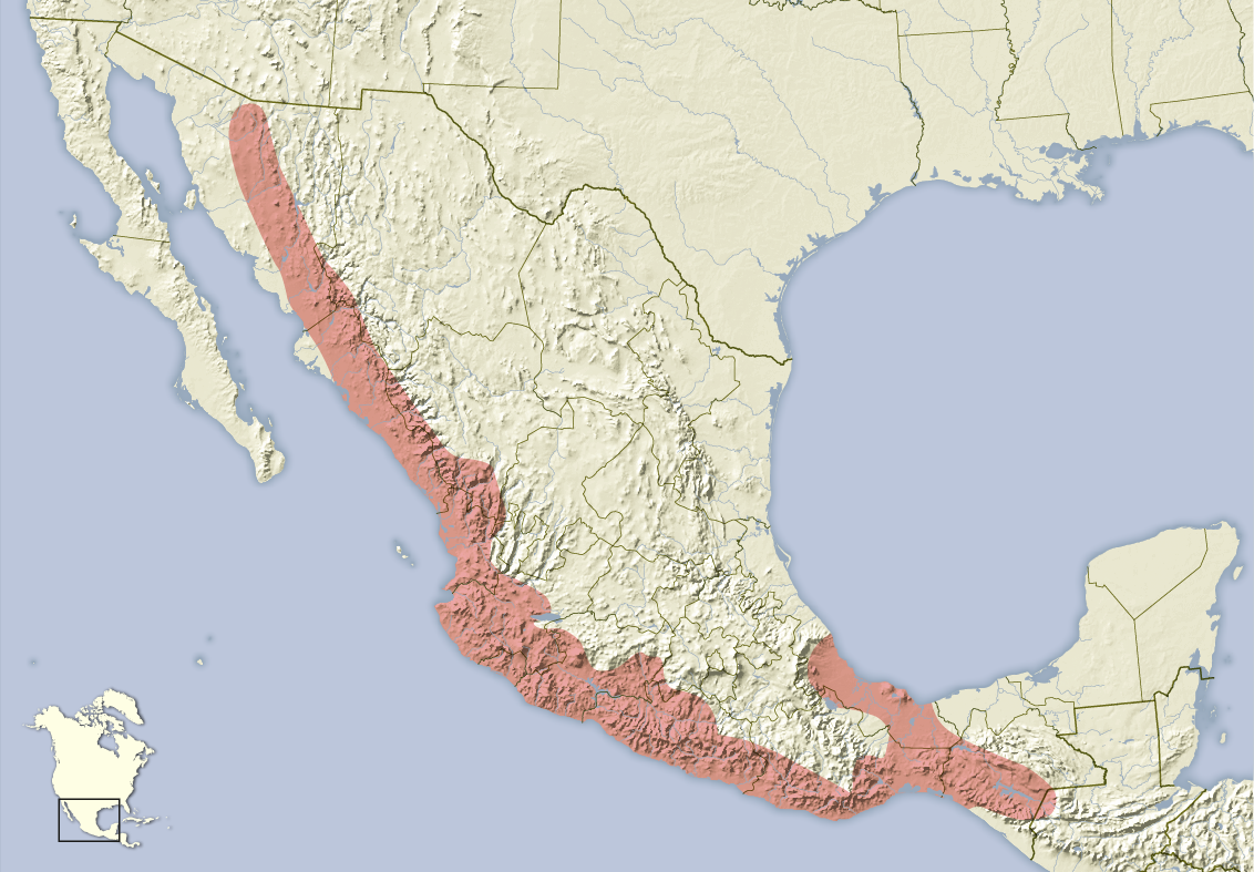 Distribution map of the Painted spiny pocket mouse